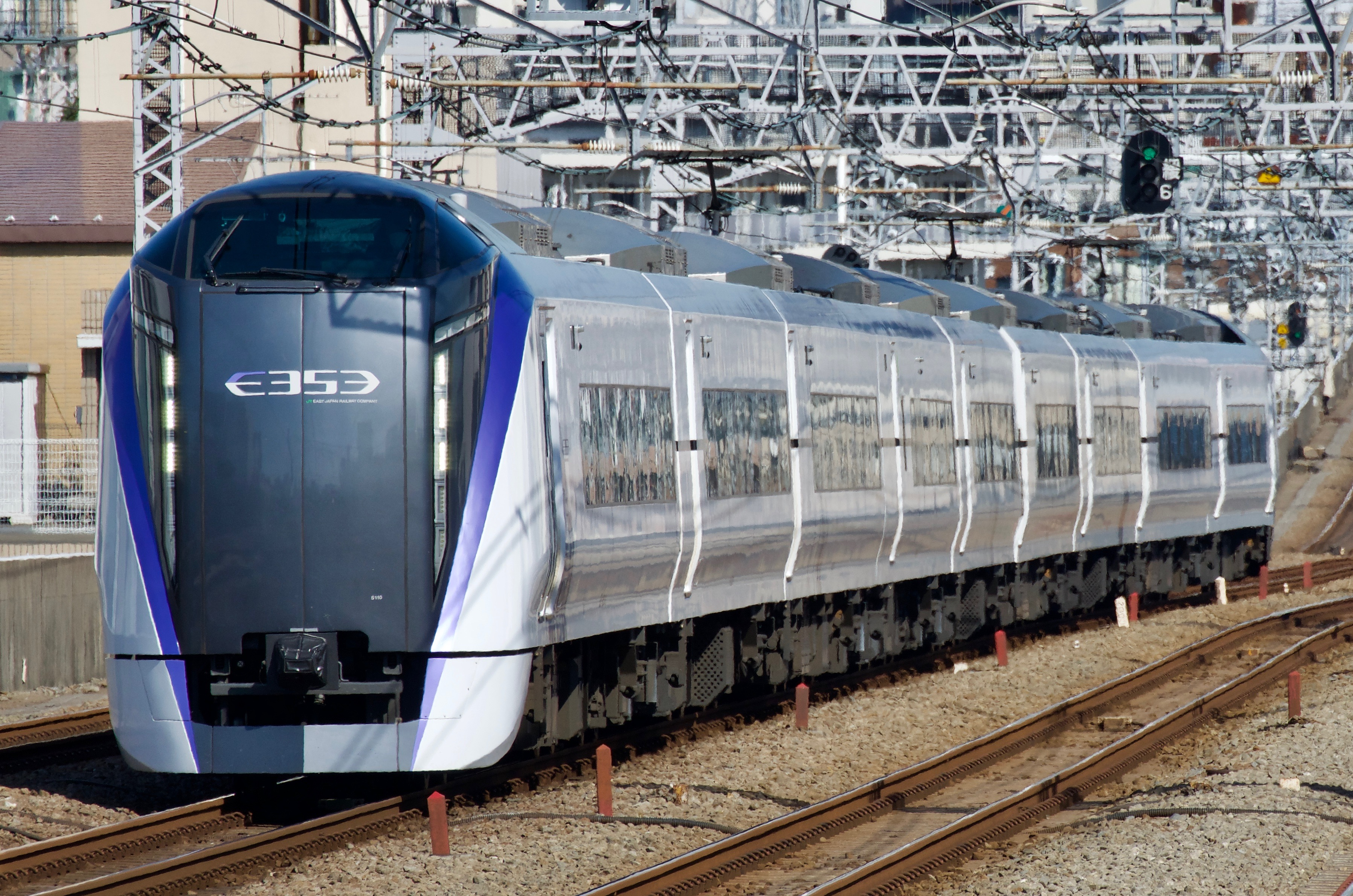 Chuo Main Line・Train No. 3111M Ltd.Exp. "Kaiji 11"・For Kofu JR East E353 Series S110 Form. Taken at Asagaya Sta.